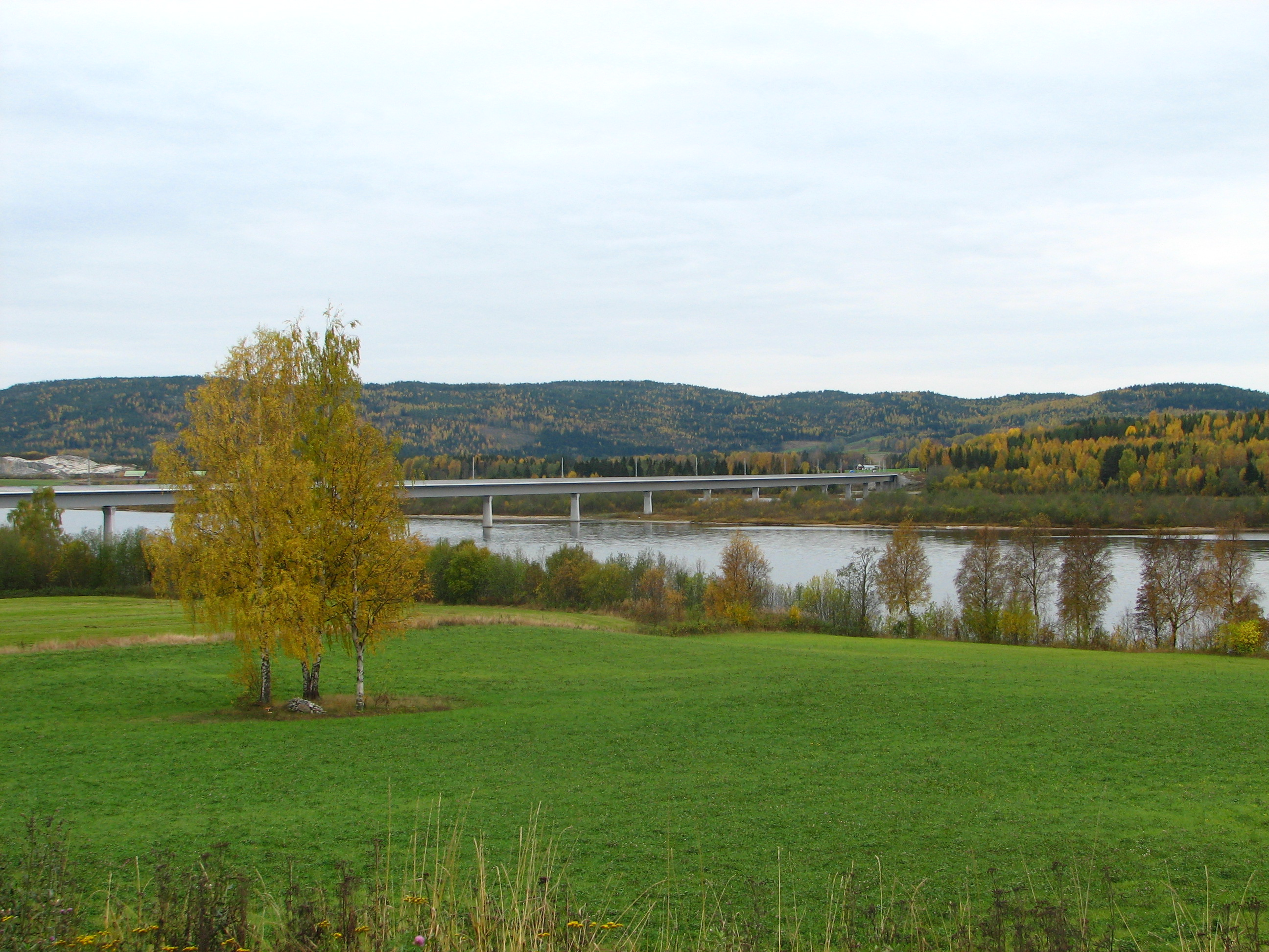 Railway-bridge over the river Ångermanälven for the new Bothnia line.